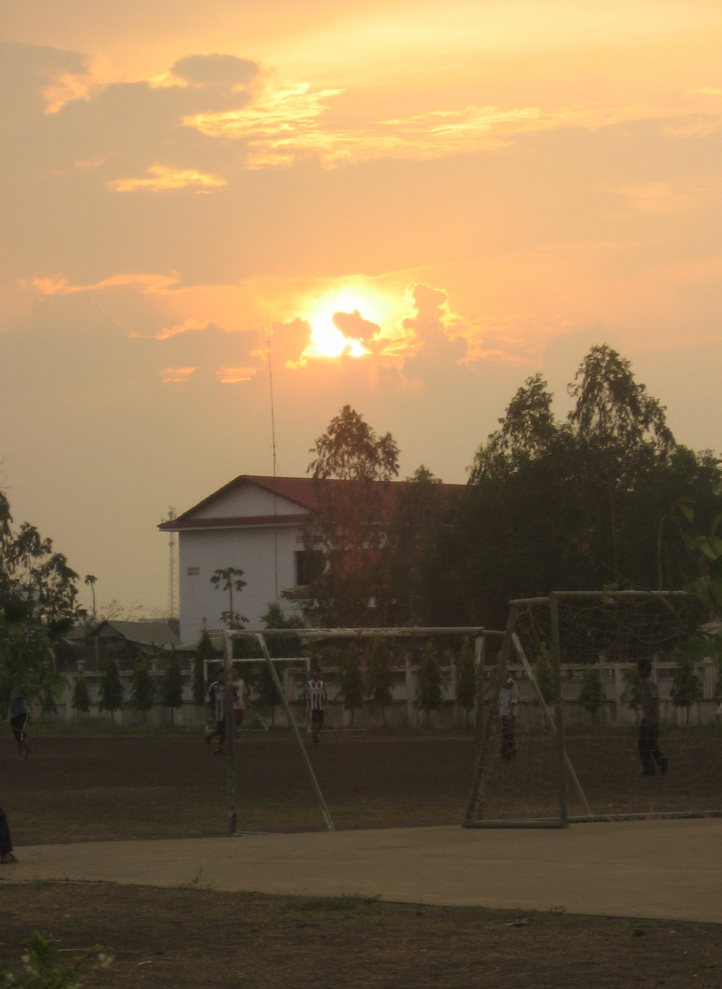 This picture by Albeiro Rodas can be used for any purpose, provided that his name is credited. Evening in Poipet, Banteay Meanchey, Cambodia.